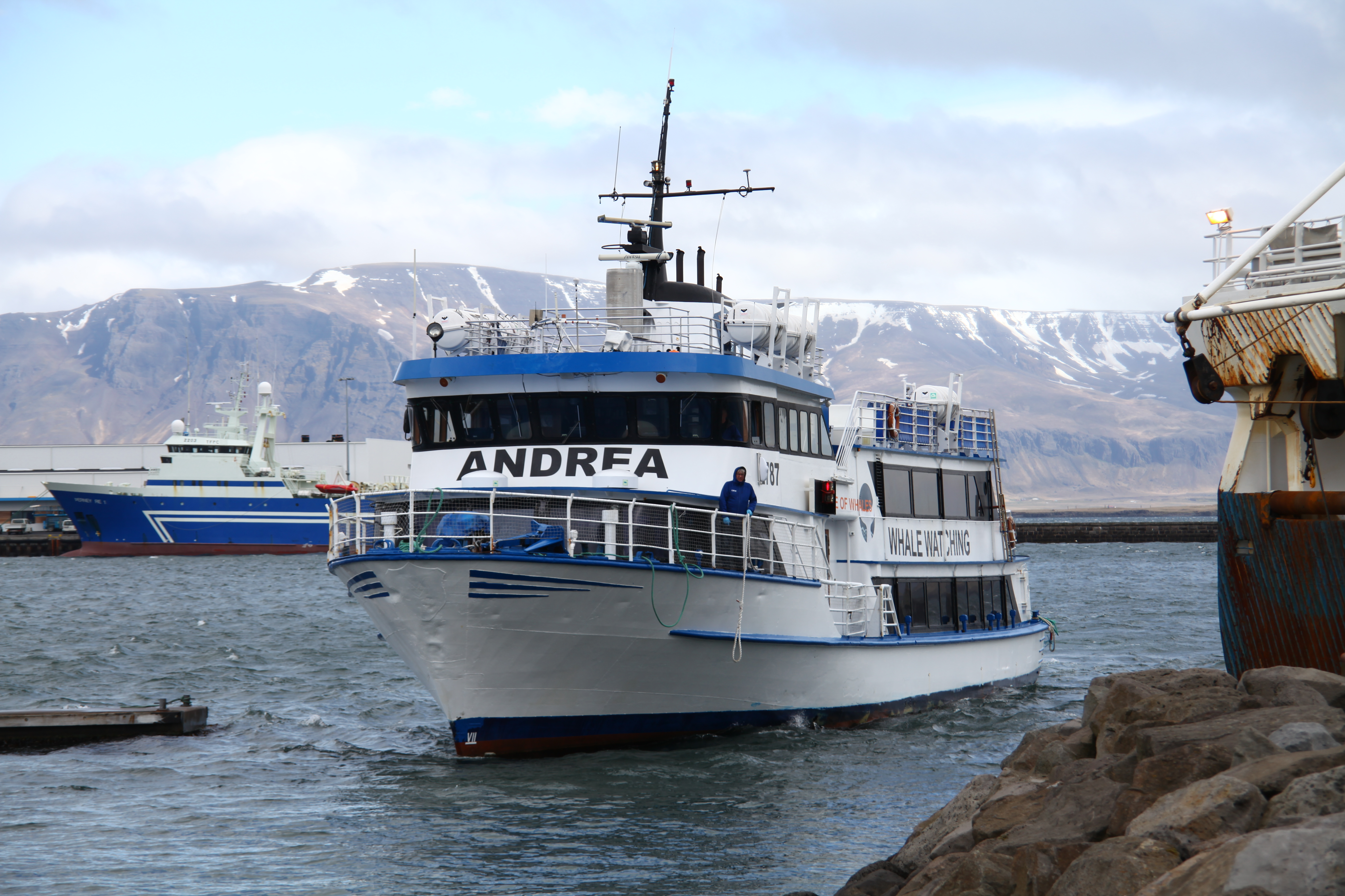 Andrea Whale Watching Boat Reykjavik Iceland